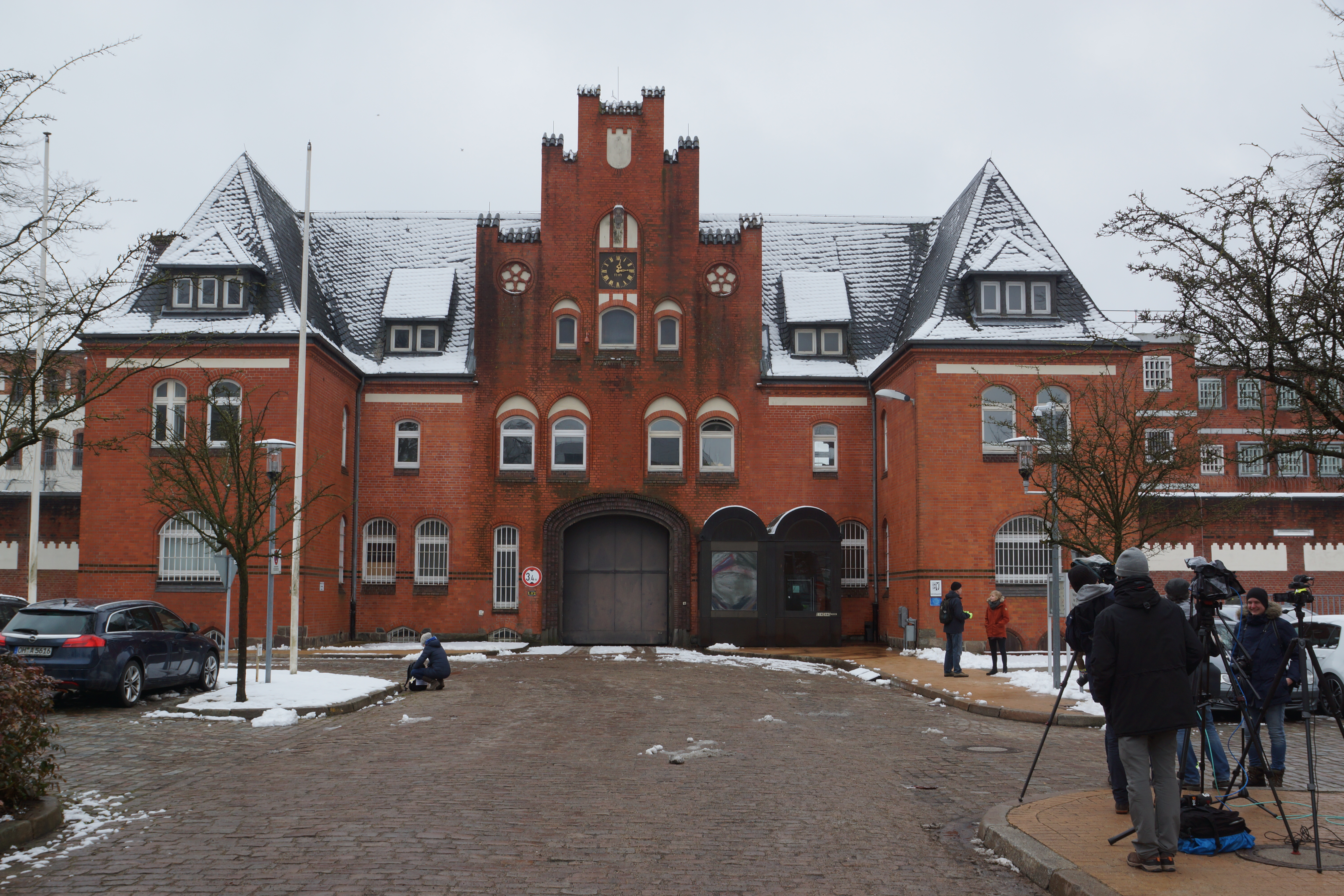 Neumünster, Germany: Prison journalists waiting for news about Carles Puigdemont's arrest